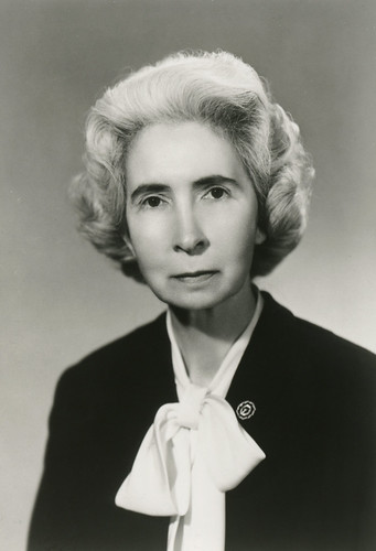 Black and white photograph of Allene Rosalind Jeanes, chemist for the Agricultural Research Service (ARS), United States Department of Agriculture (USDA). Instrumental in developing a blood plasma extender and a compound use as a thickening agent. From the collection of the USDA National Agricultural Library